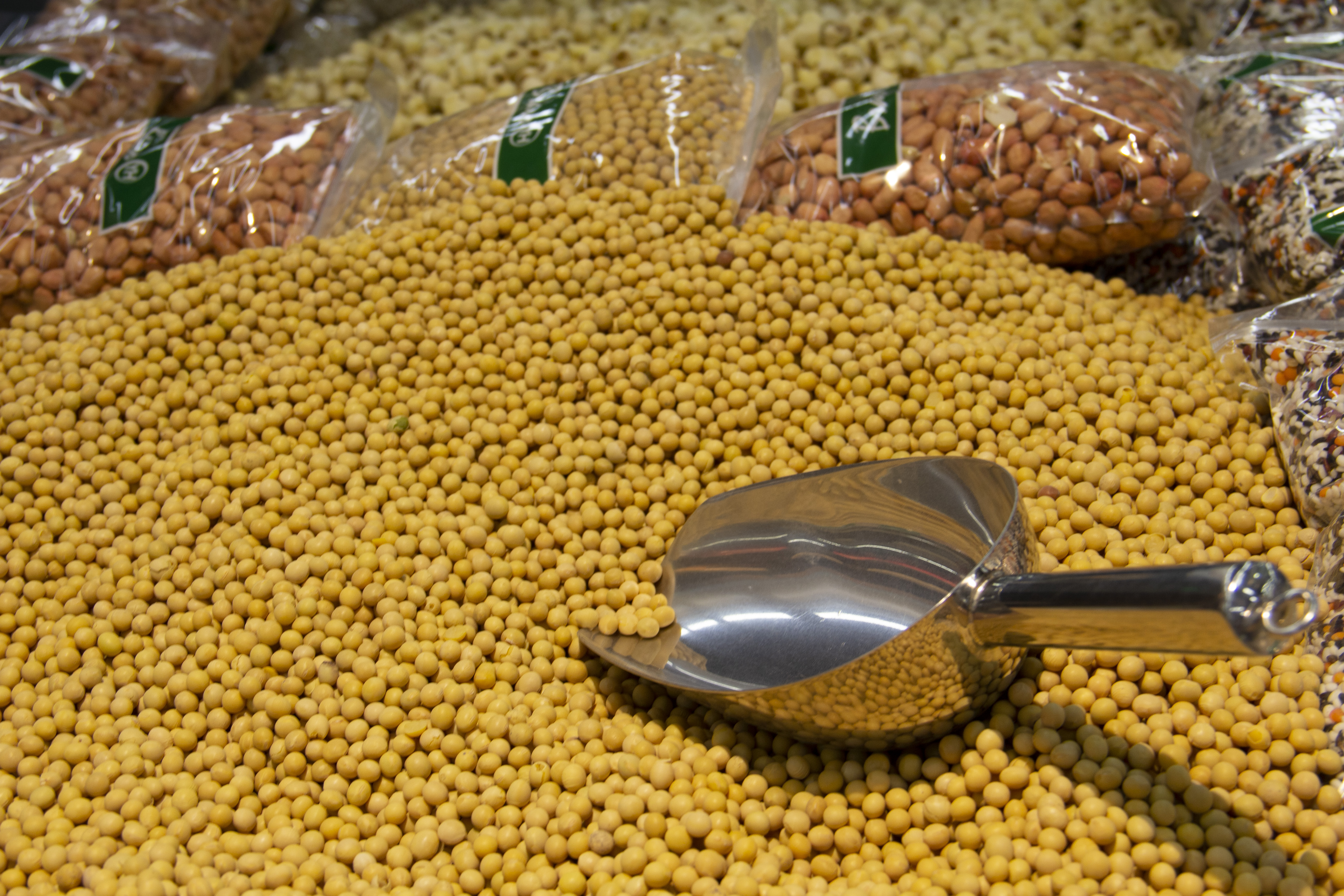 Soybeans